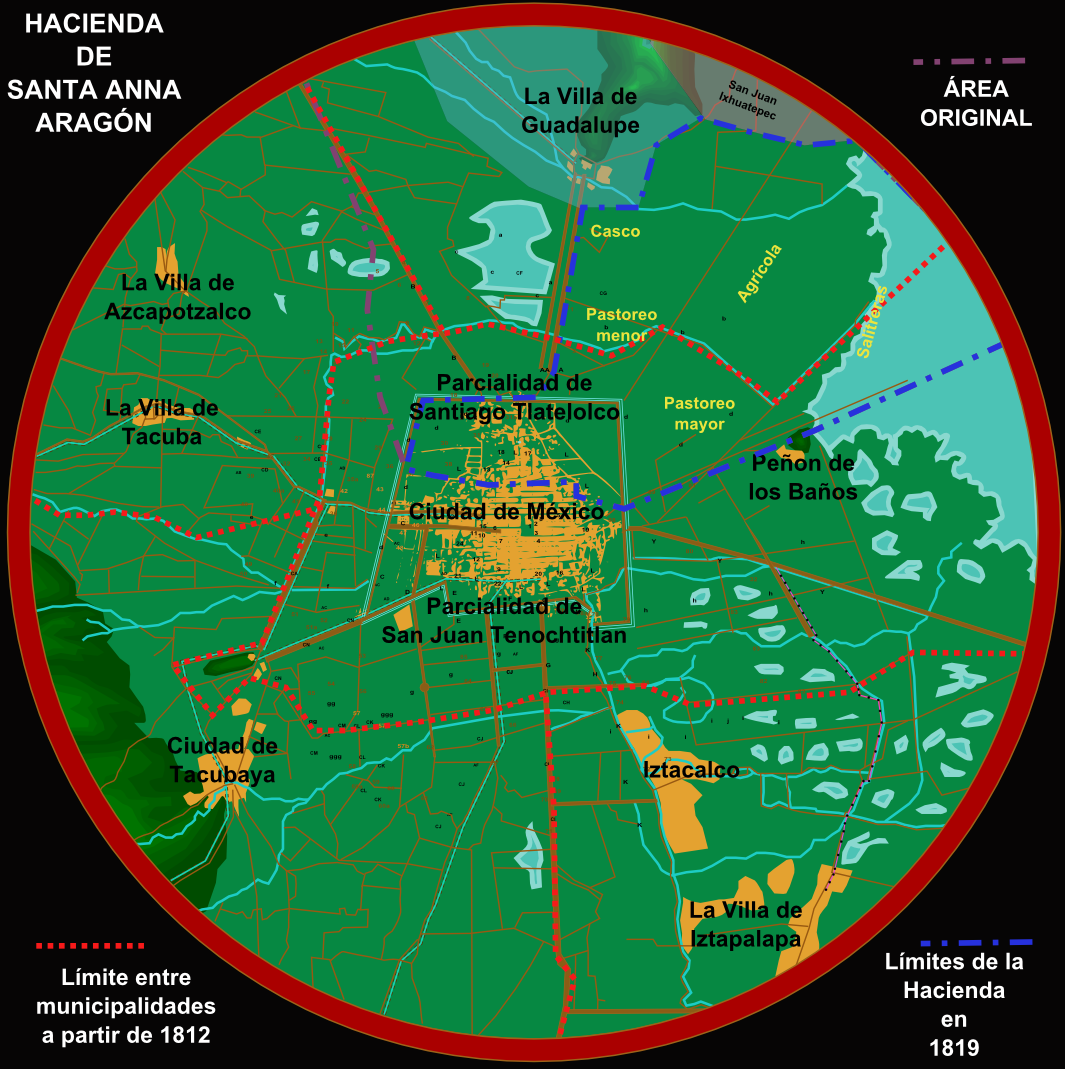 Based on the Historical Atlas Mexico City by Sonia Lombardo de Ruiz, 1996, ISBN 978-9687193120, UNAM, Mexico. pp. 152 to 170. and Article of Association of Mexico, an indigenous community hacienda in New Spain, Santa Anna Aragon